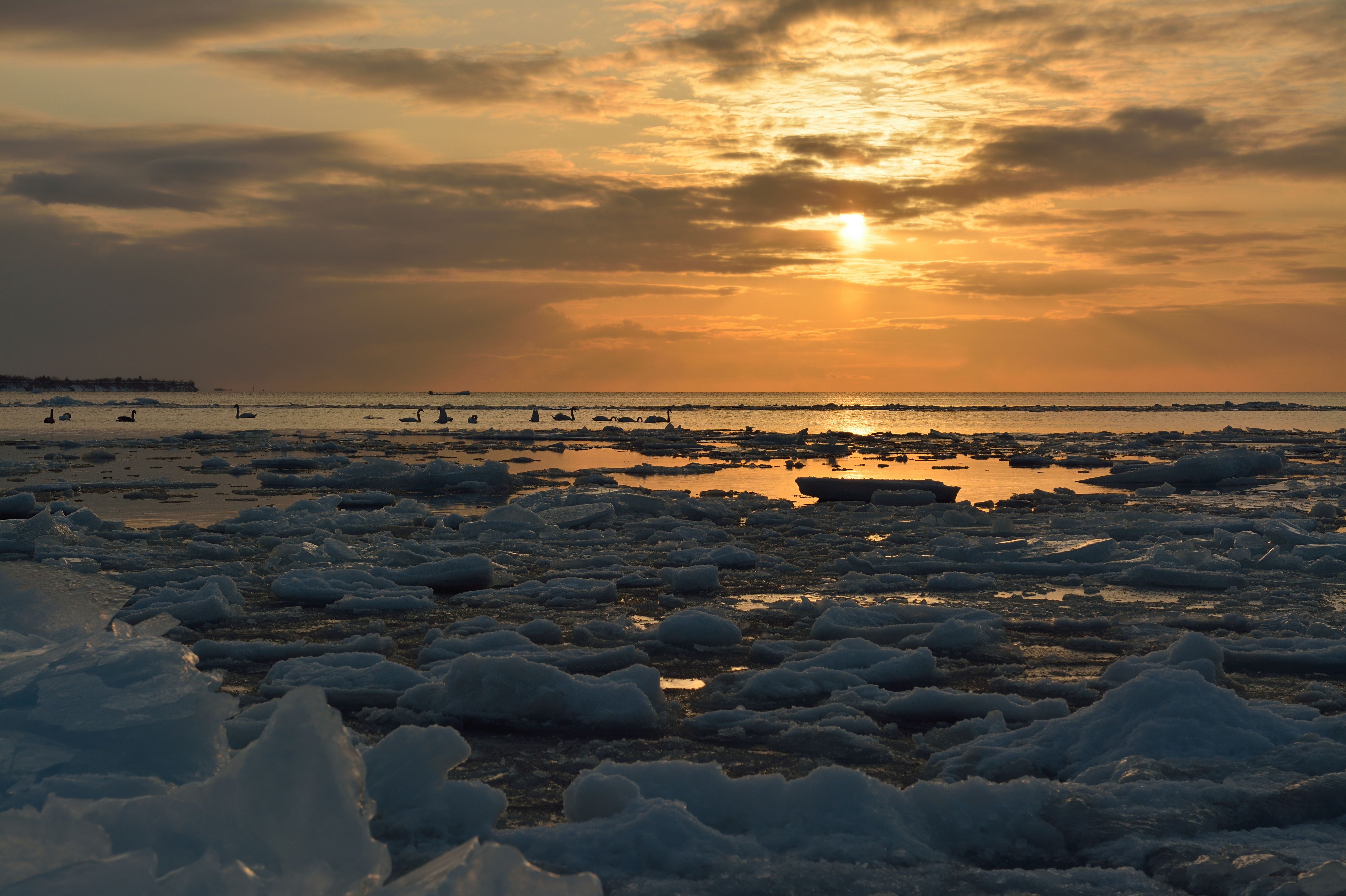 Mute swans (Cygnus olor) on the icy Paldiski bay before sunset, Northwestern Estonia.